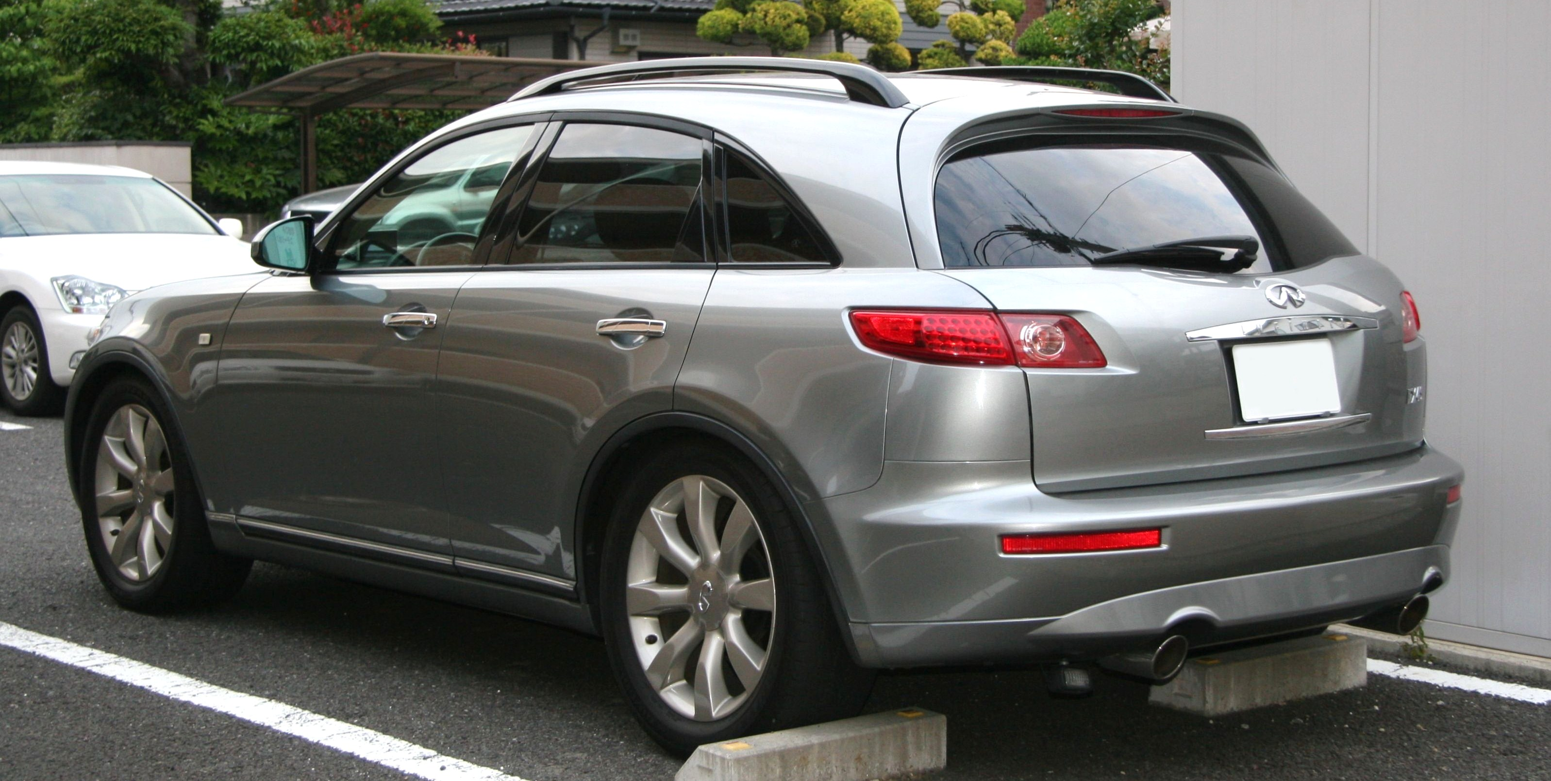 INFINITI FX45 in Japan